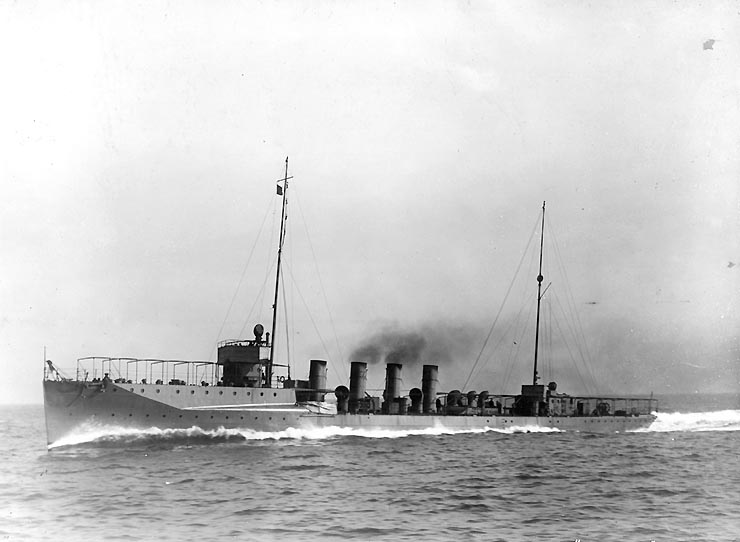 USS Benham (Destroyer # 49) making 31.774 knots during sea trials, 16 December 1913.